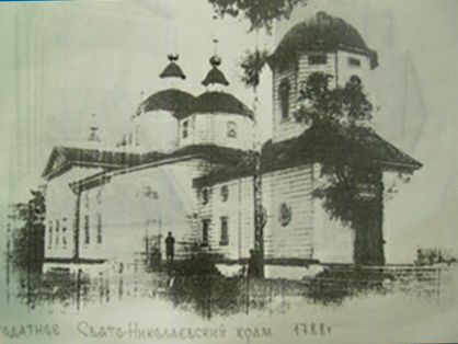 Church of St. Nicholas in Blahodatne from 1788, Amvrosiivka Raion, Donetsk Oblast (Ukraine)